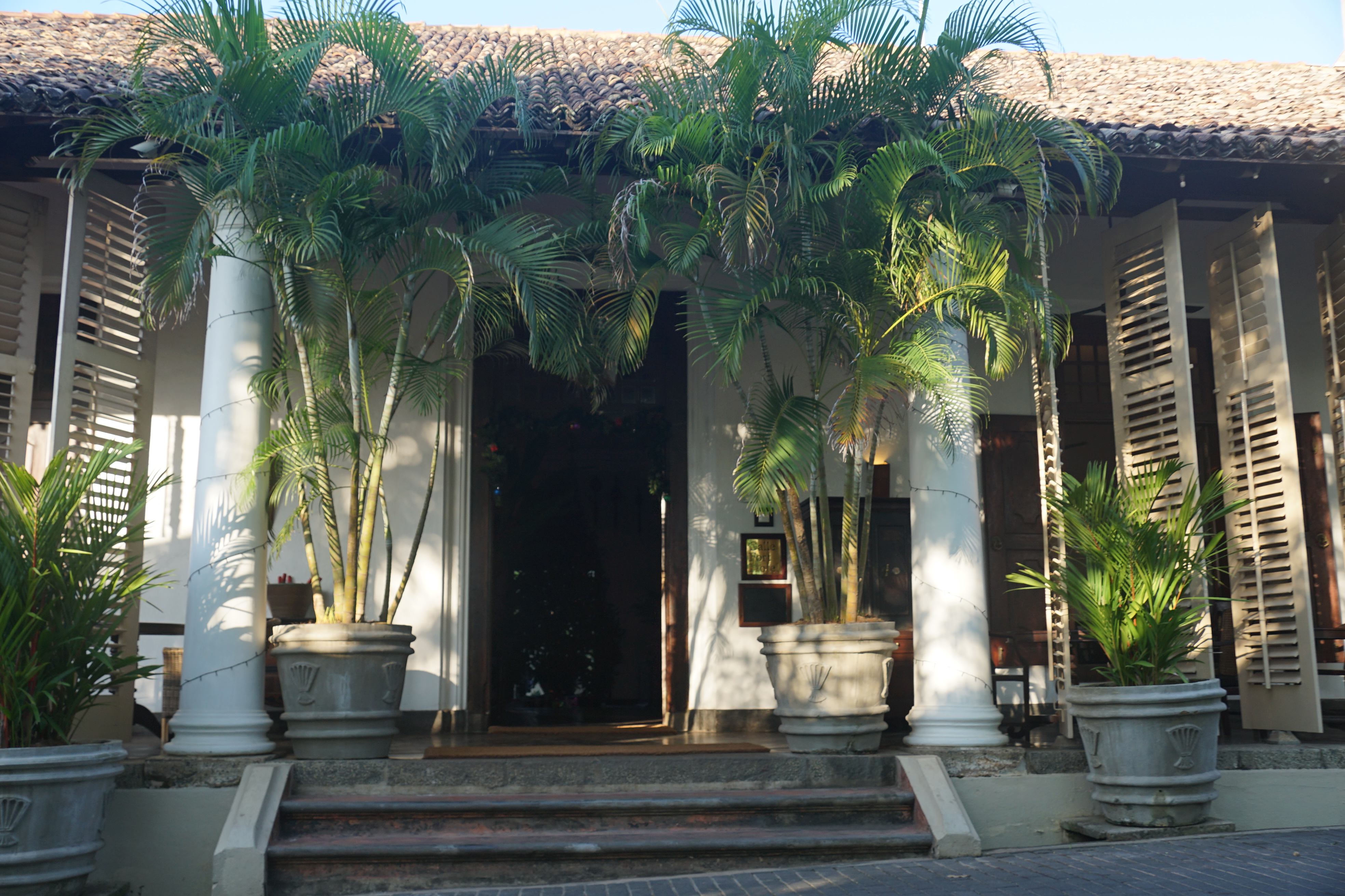 Galle Fort Hotel (28 Church Street, Galle Fort) is a former 17th century Dutch merchant's house, which was converted in 1999 to a 12 room boutique hotel.